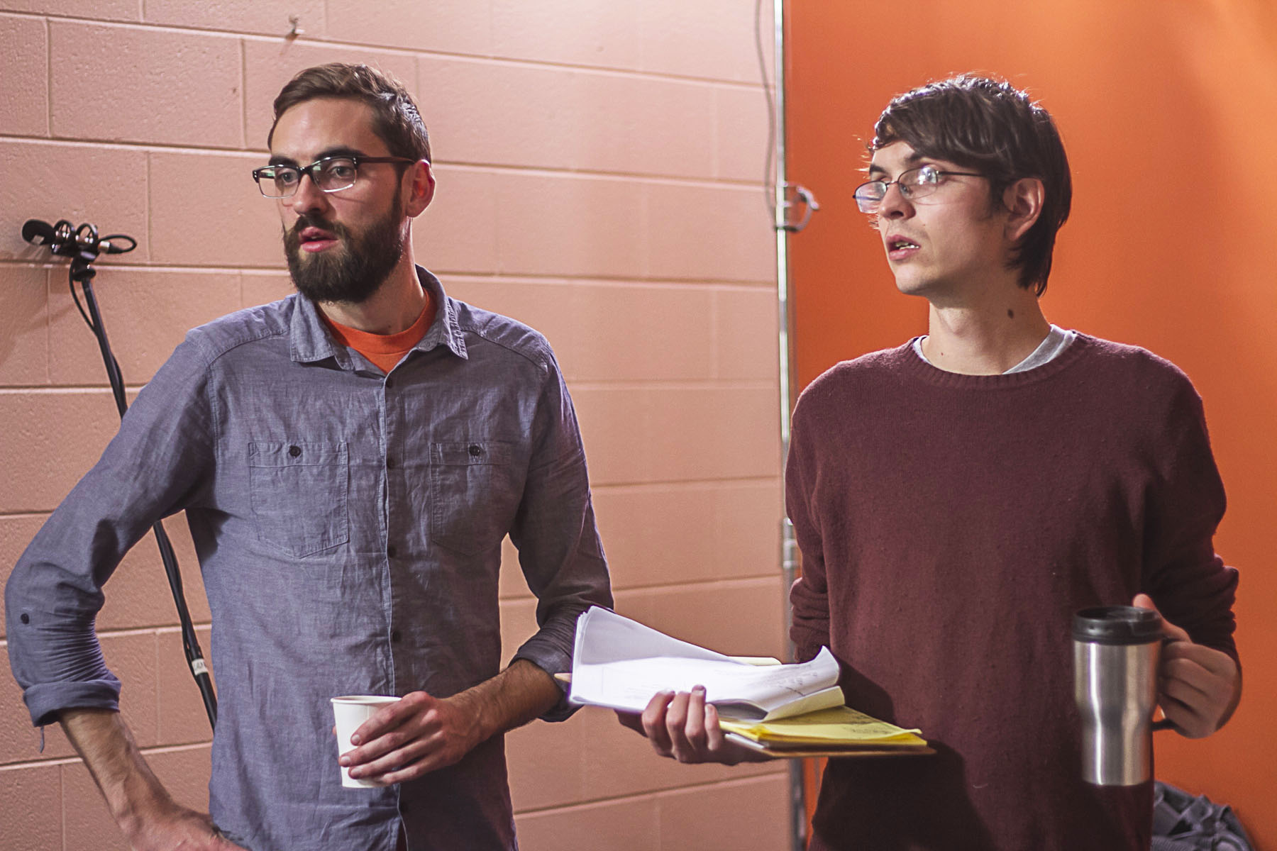 The Nix brothers: Evan Nix (left) and Adam Nix (right) on the set of Those Who Can't (Amazon Studios)